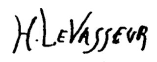 Signature of Henri Louis Levasseur